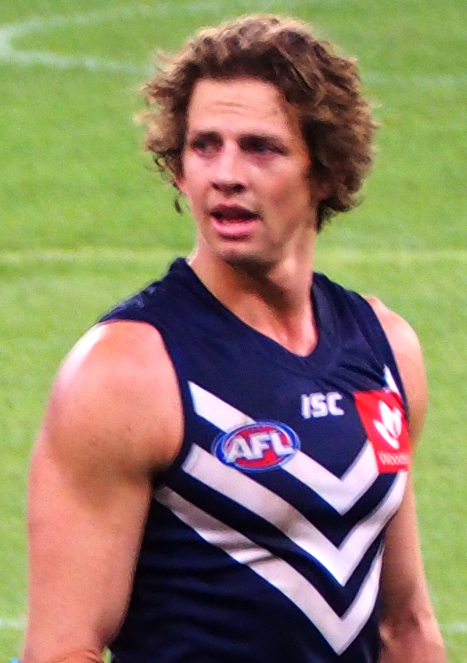 Nathan Fyfe playing for Fremantle Football Club at Optus Stadium, Round 6, 27 April 2019